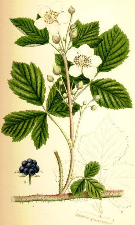 Piece of first-year stem with second-year flowering branch, piece of new stem with a leaf, calyx and aggregate of druplets (blackberry).